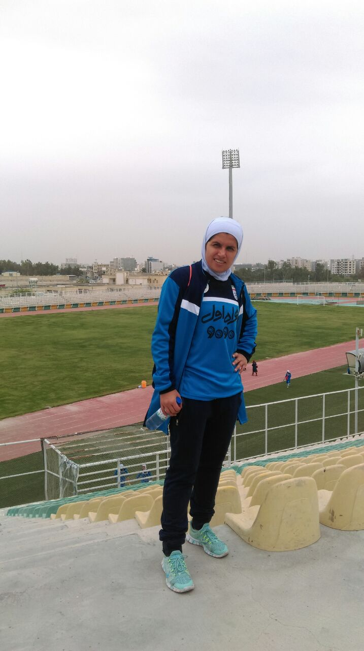 وحیده ایثاری